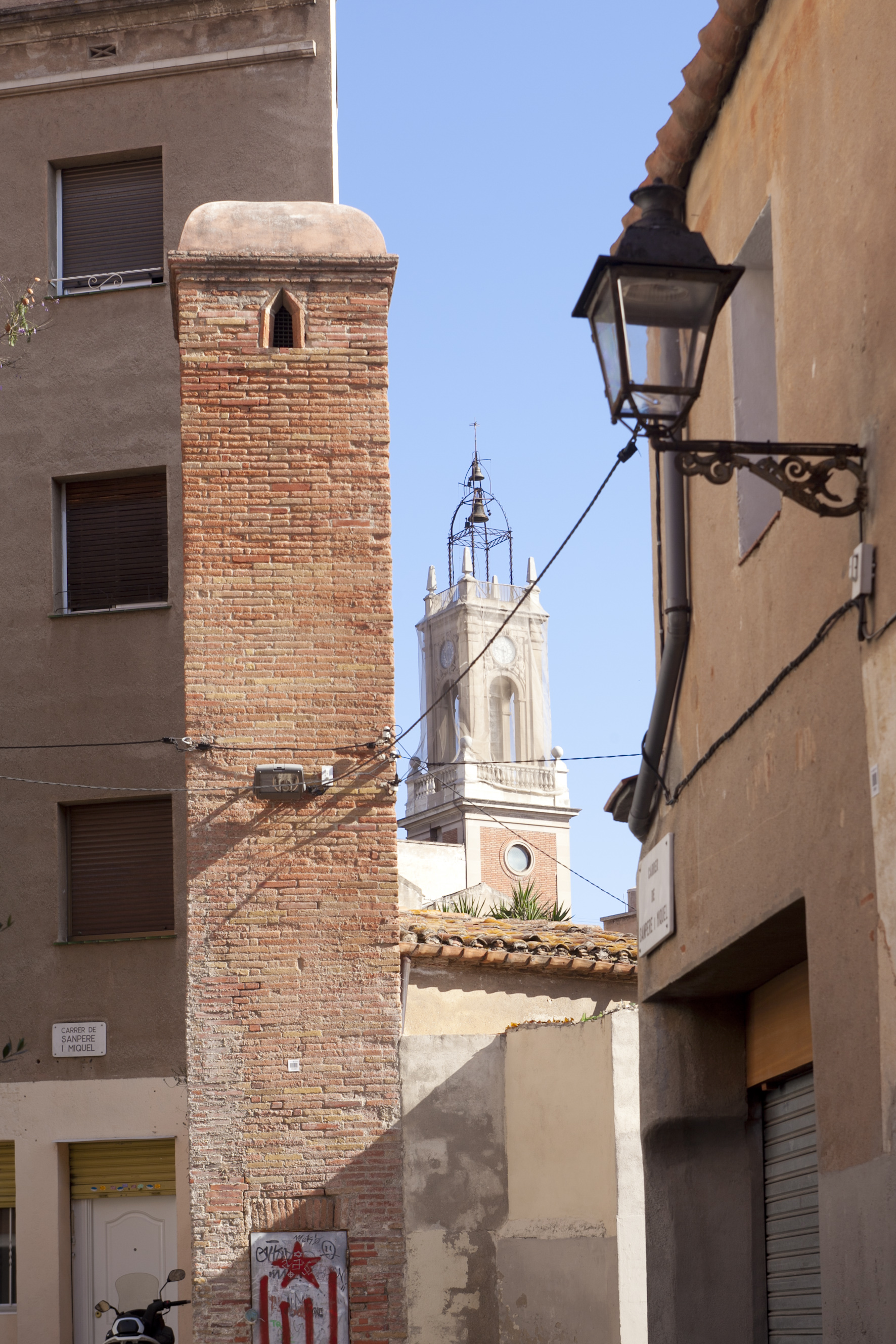 Historical Routes at the Horta-Guinardó District Administration in Barcelona This image was provided to Wikimedia Commons by the Horta-Guinardó District Administration in Barcelona as part of an ongoing cooperative project with Amical Viquipèdia. English | +/−